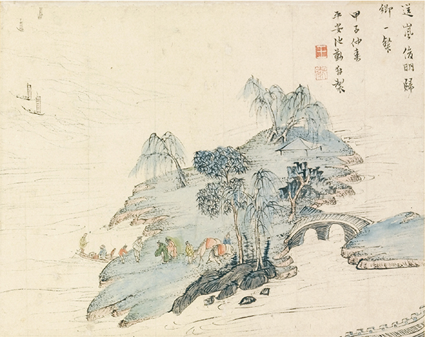 Willows at Weicheng by Ike no Taiga, Tsurui Museum of Art, Niigata, Niigata, Japan